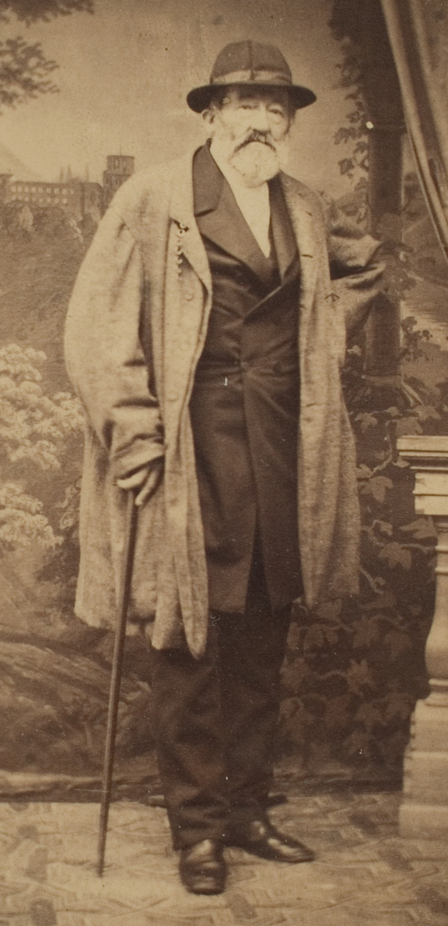 Johann Georg Christian Kapp, Philosoph, 1839–1844 Honorarprofessor in Heidelberg